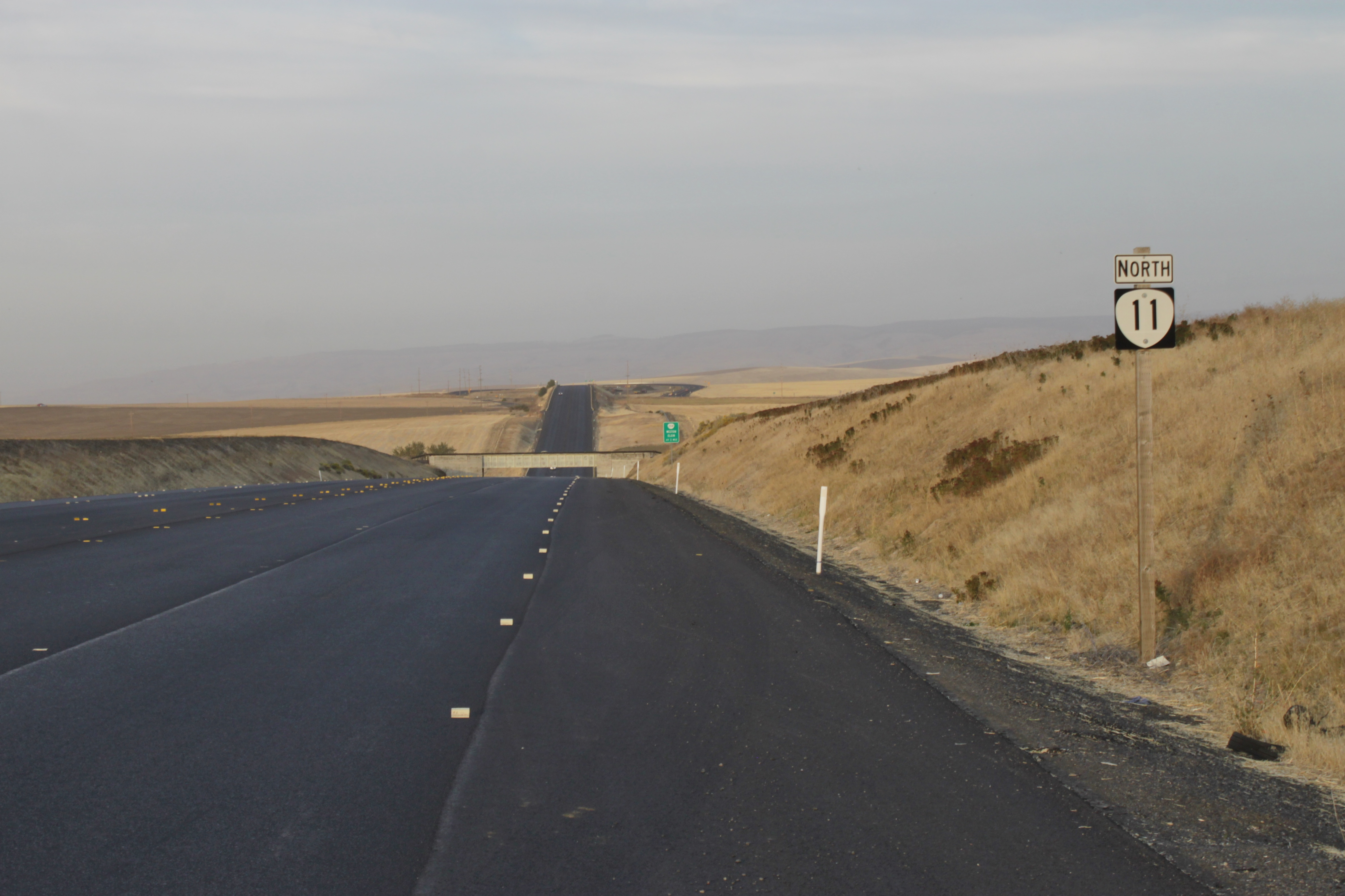 Looking northbound on Oregon Route 11 approaching Milton-Freewater, Oregon.